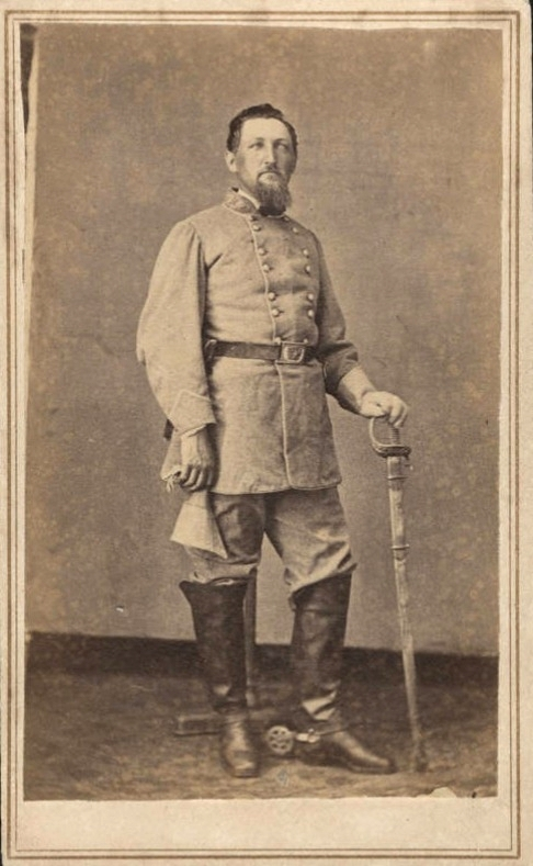 Brigadier General Thomas P. Dockery, Butler Center for Arkansas Studies, Central Arkansas Library System. Note: Dockery started off the war in command of the 5th Infantry Regiment, Arkansas State Troops, which he led at Wilson's Creek. He was later put in command of the 19th Arkansas Infantry Regiment. Following his capture at Vicksburg and later parole, Dockery was promoted to brigadier general. He returned to Arkansas and assumed command of a brigade, which he led during the Camden Expedition.